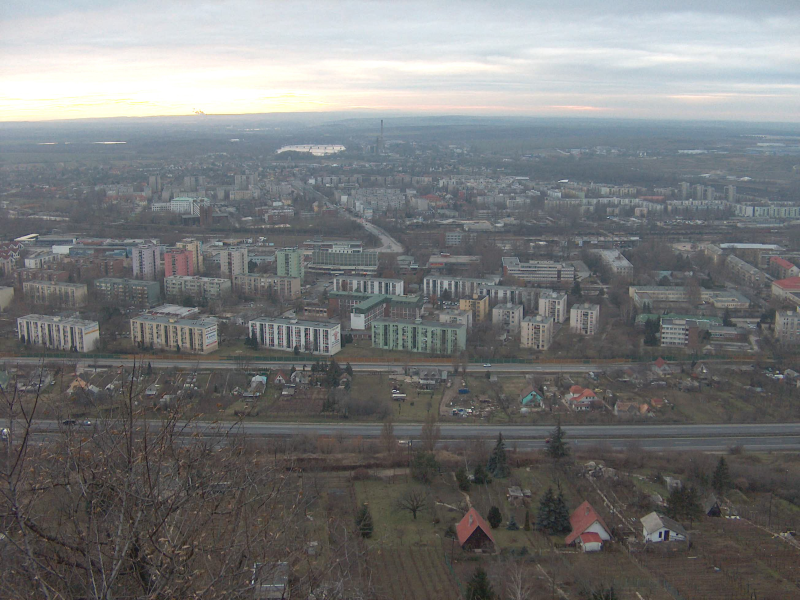 The city of Tatabánya. From Hungarian wikipedia [1]. It was taken by user:Gaja of Hungarian wikipedia.